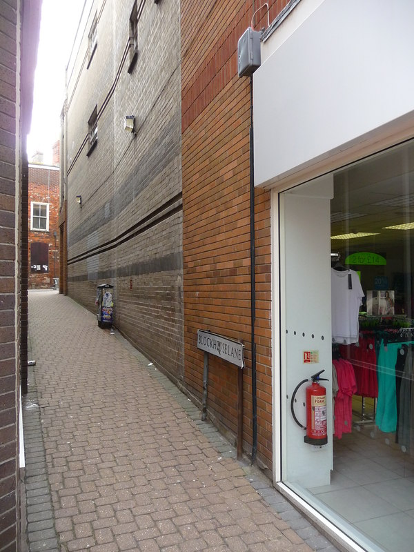 Blockhouse Lane is a short cut-through between St Marys street and New Street, Weymouth.